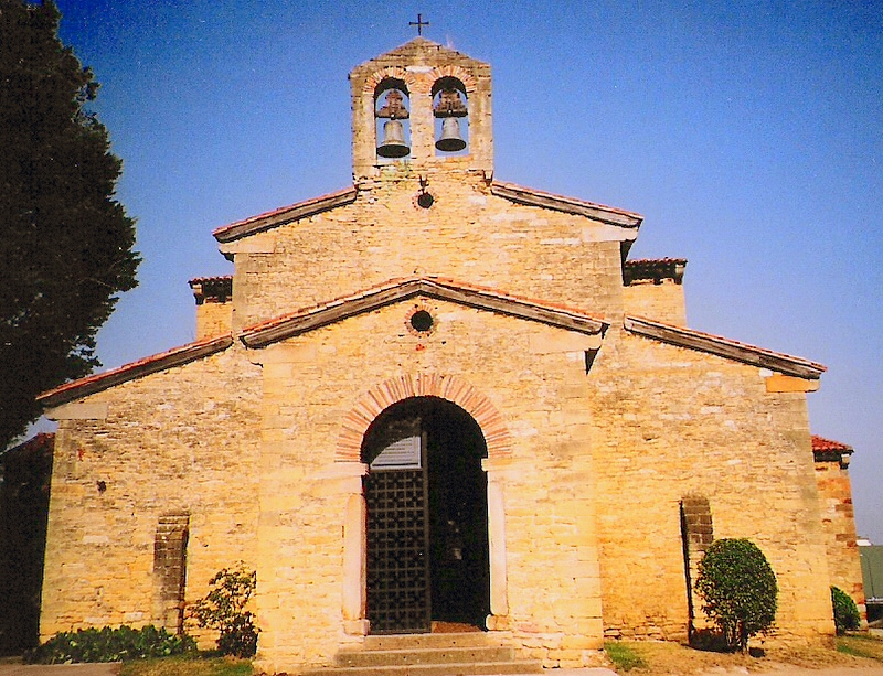 Church of San Julián de los Prados, Oviedo, Asturias. It is the biggest pre-romanesque church (30 meters long by 25 meters wide)